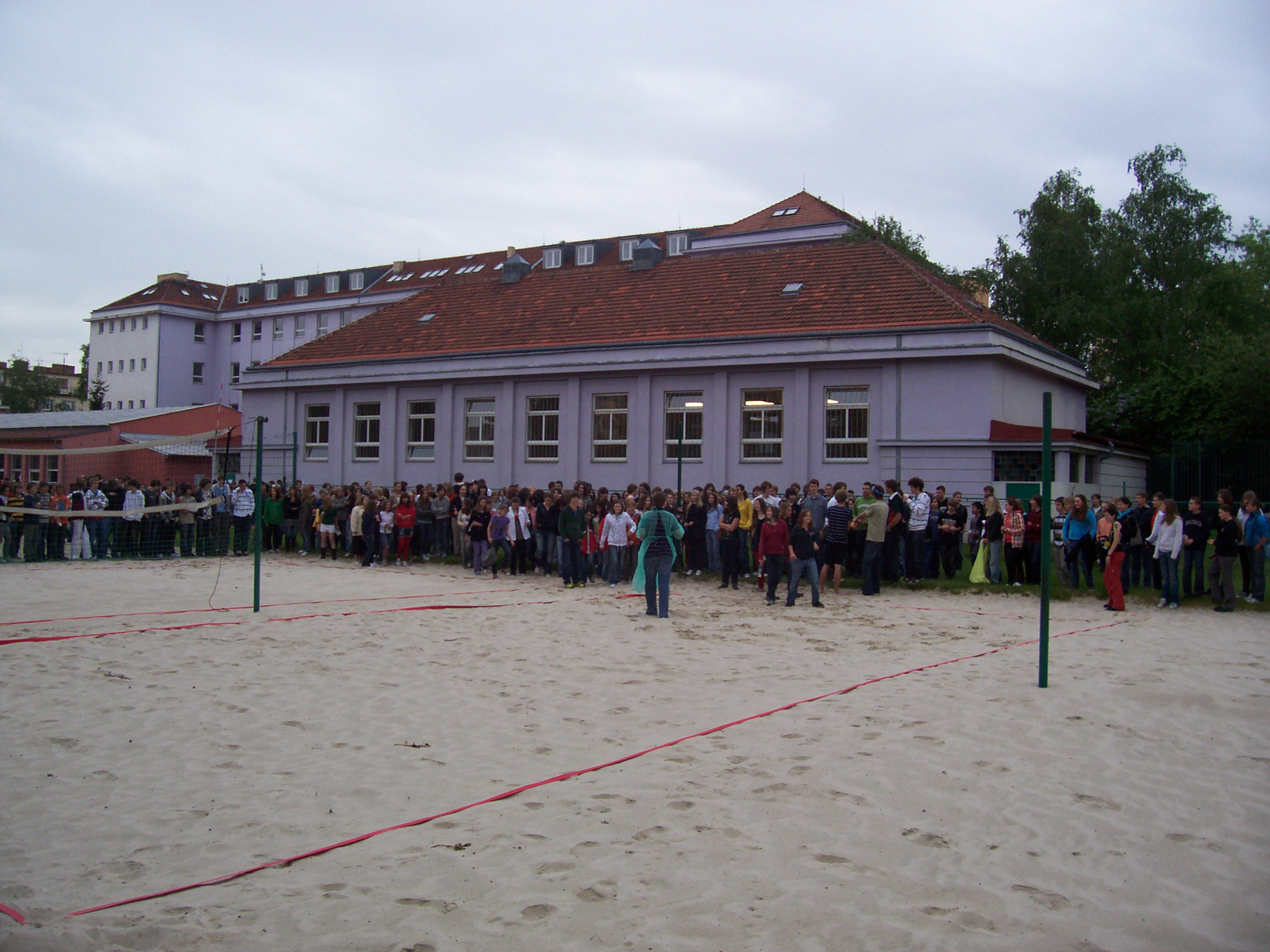 Gymnázium Budějovická, Prague – farewell to the oldest students